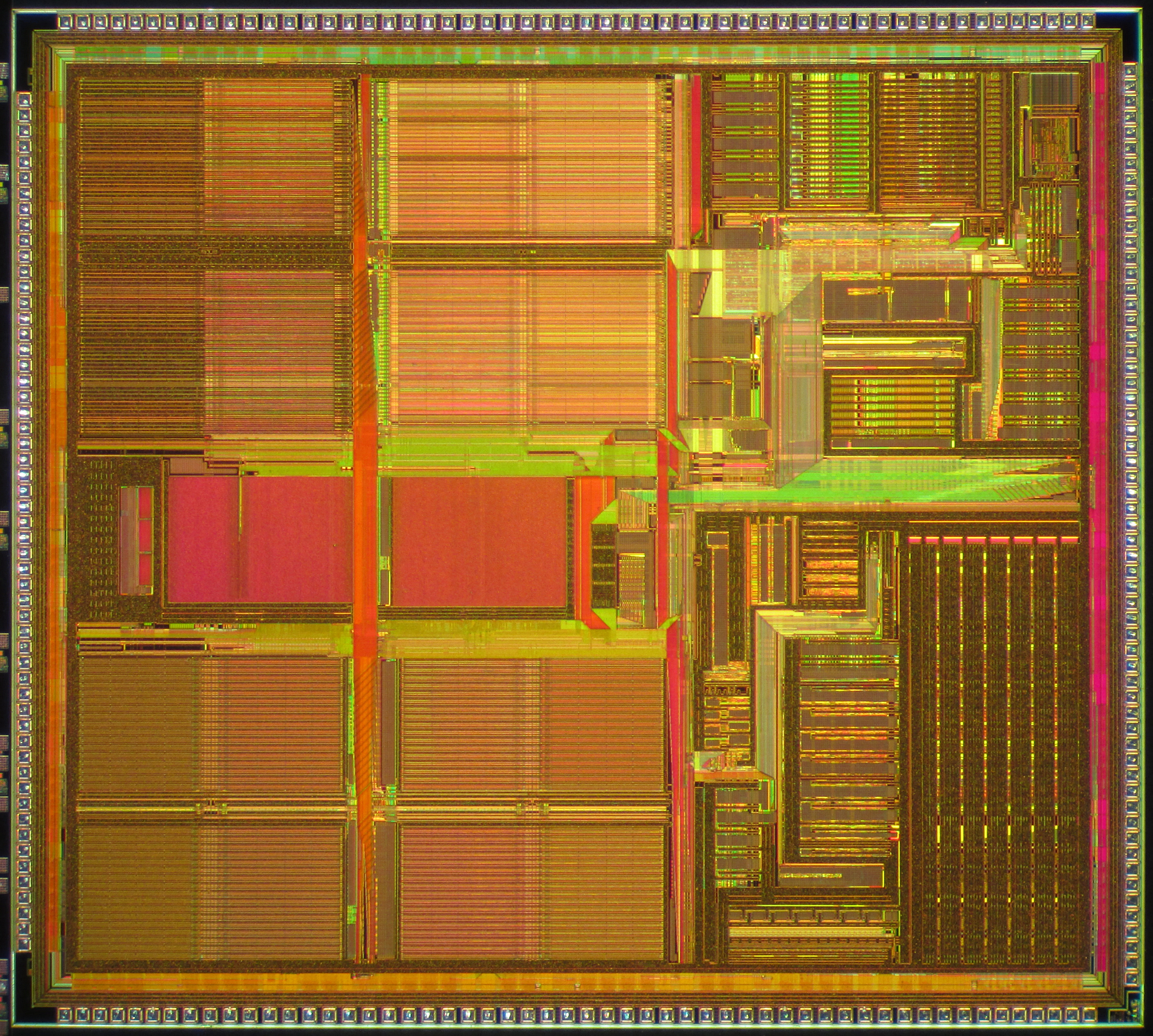 Die shot of Quantum Effect Devices RM52X1 MIPS microprocessor on wafer. This RM52X1 die can be RM5231, RM5261 or RM5271 microprocessor in different packages.